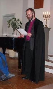 Photo of a Norwegian Unitarian pastor